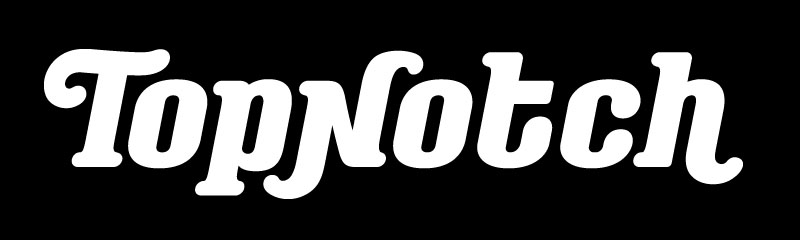 Logo of record label from the Netherlands, TopNotch